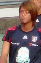 Hideki Sahara from FC Tokyo